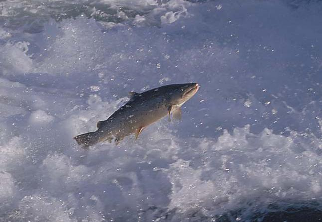 A picture of a spawning hundertrout